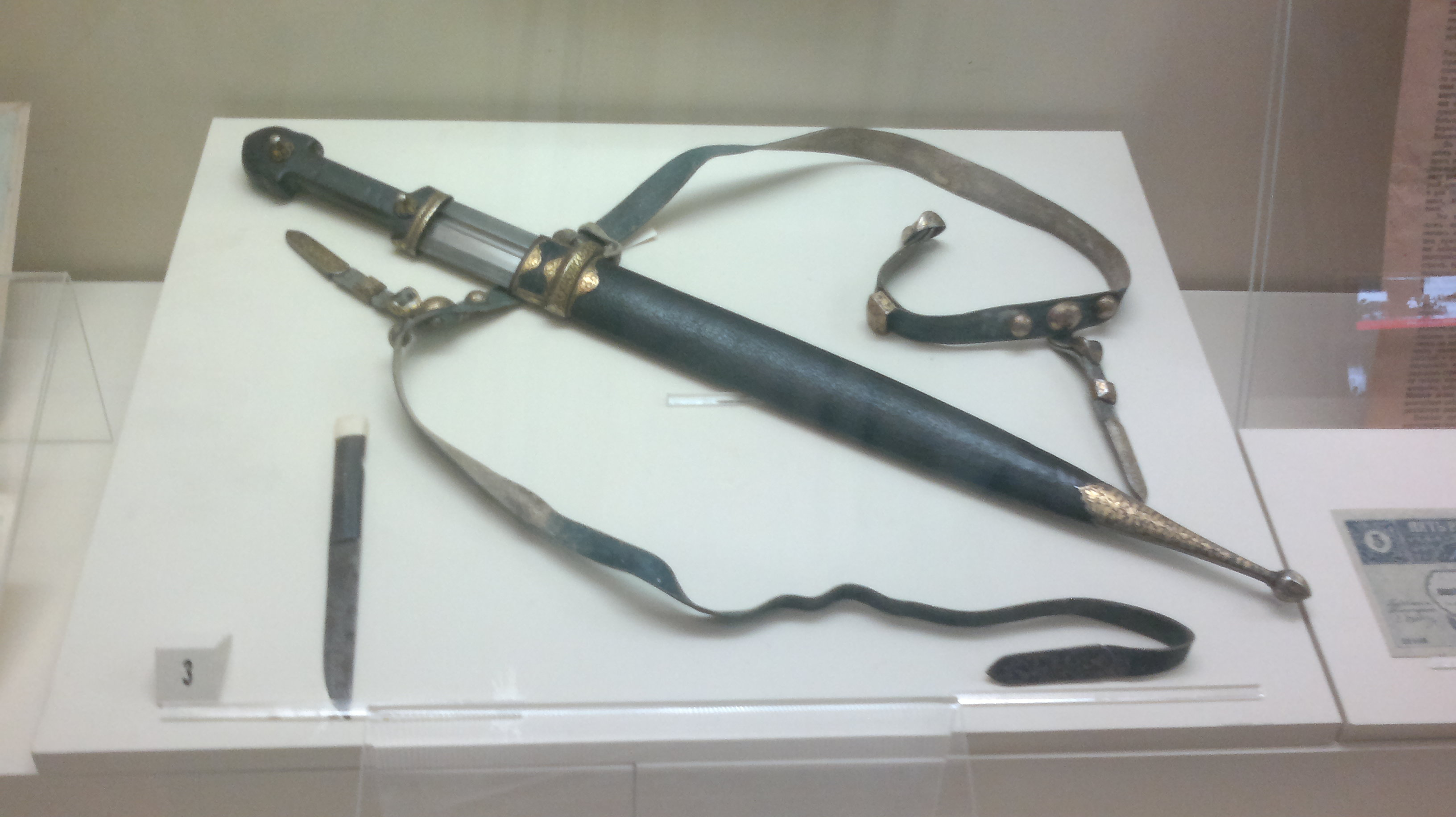 Dagger owned by Ibrahim Heydarov. Museum of History of Azerbaijan.